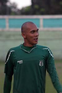 Markus Haris Maulana, goalkeeper and captain of PSMS team in the Indonesia Super League